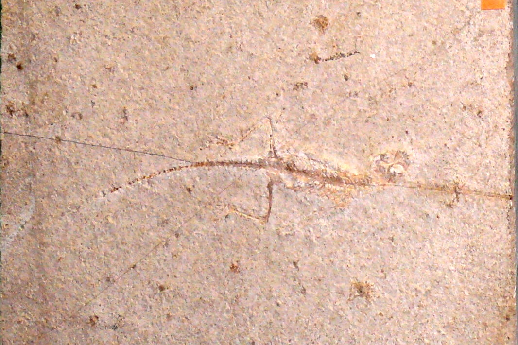 Kallimodon, Eichstätt